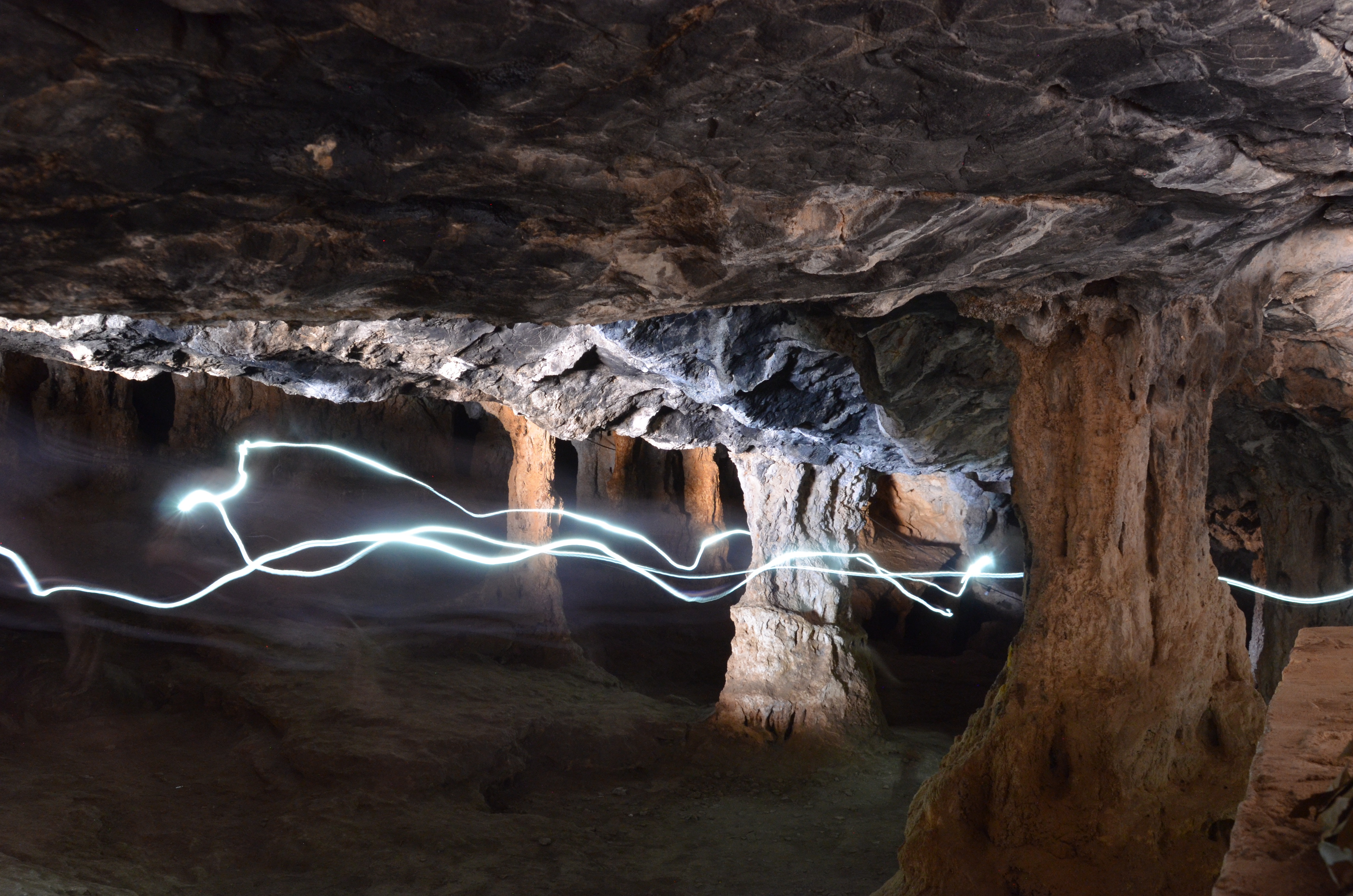 A game with light in historic cave of Milatos, Crete «Σπήλαιο Μιλάτου»